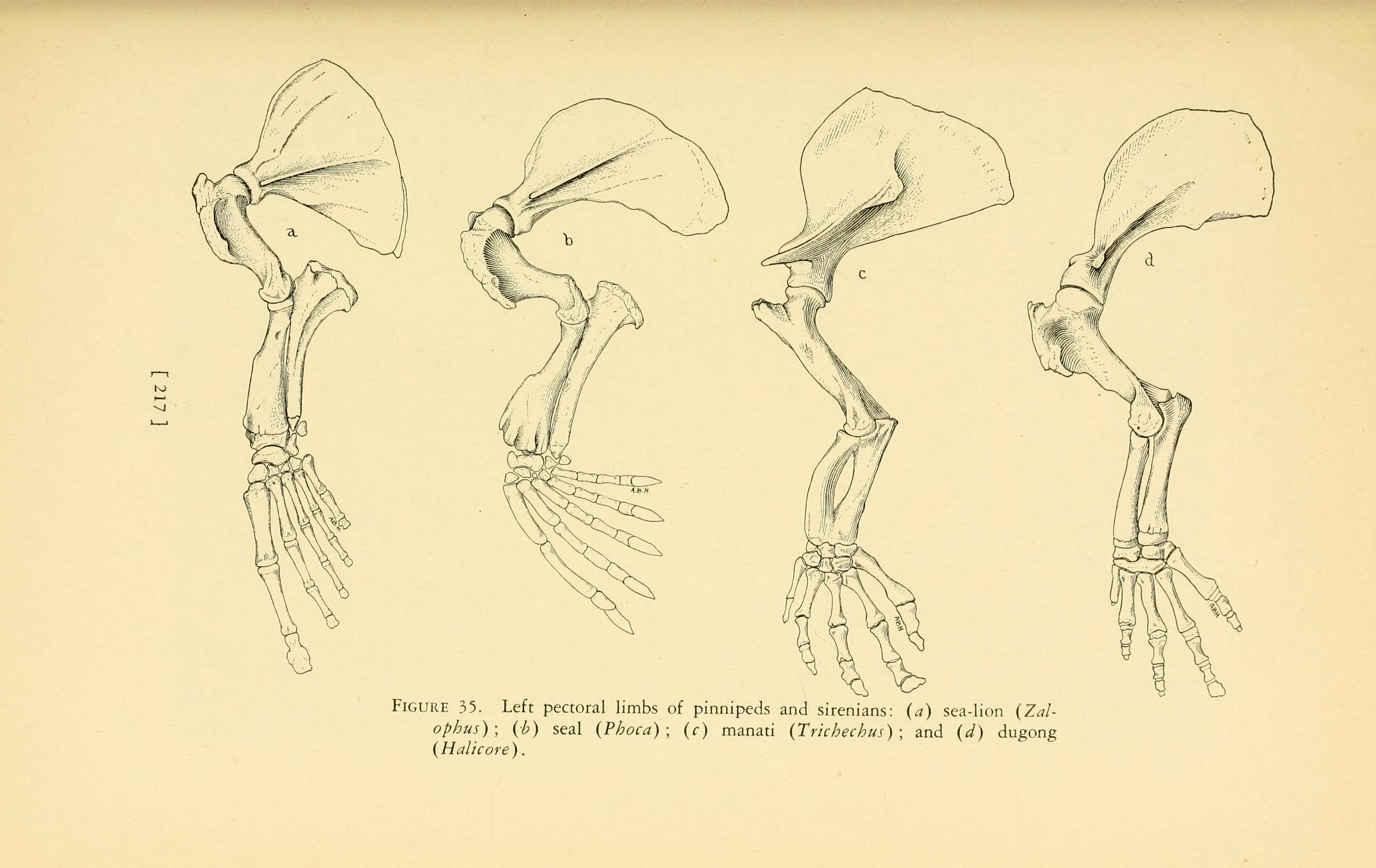 Title: Aquatic mammals; their adaptations to life in the water Year: 1930 (1930s) Authors: Howell, A. Brazier (Alfred Brazier), 1886- Subjects: Marine animals; Freshwater animals; Mammals; Vertebrates -- Anatomy; Adaptation (Biology); Adaptation, Biological; Mammals; Marine Biology; Vertebrates -- anatomy & histology Publisher: Springfield, Ill. , Baltimore, Md. , C. C. Thomas Text Appearing Before Image: ' Text Appearing After Image: [217]